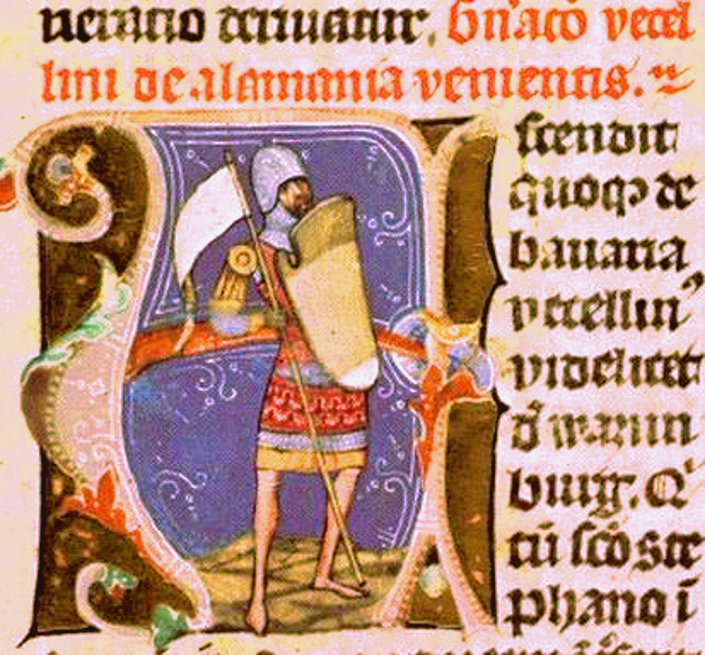 Vencellin in the Képes Krónika (Illustrated Chronicle)